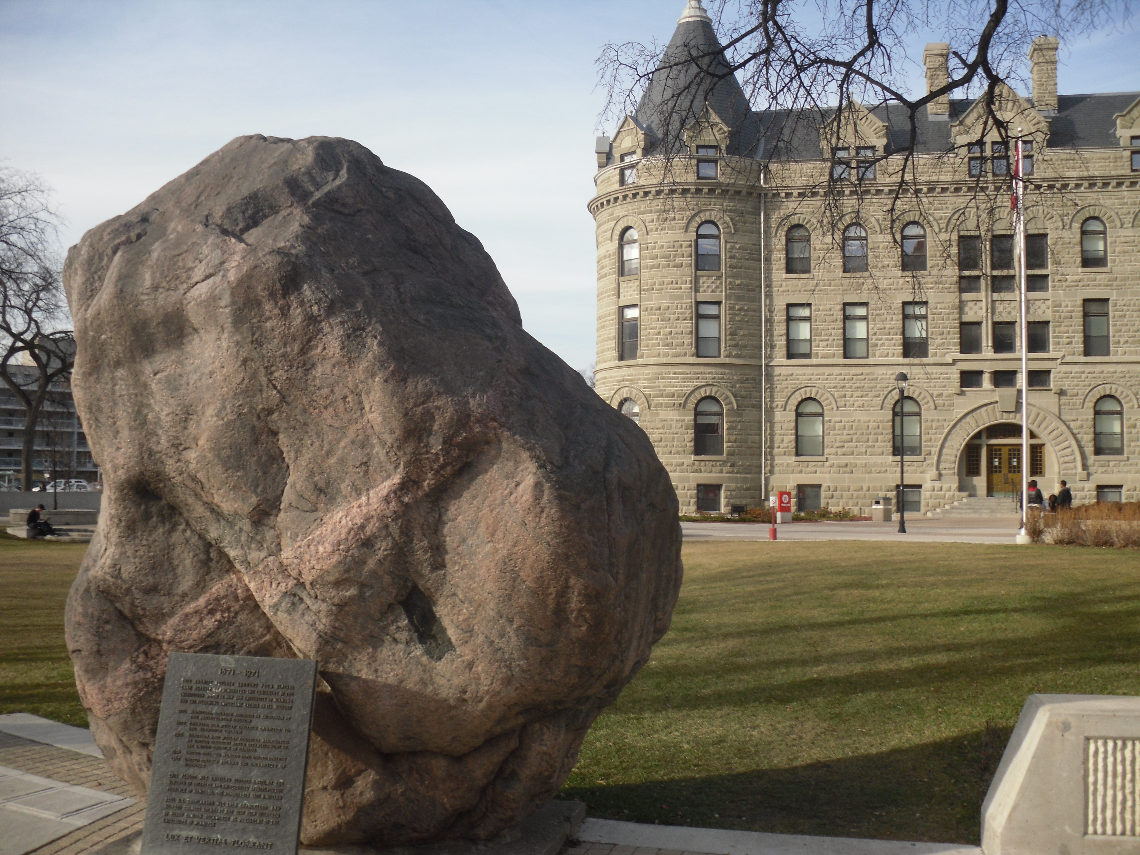 The brainchild of President Emeritus Dr. Henry E. Duckworth, a 25-ton granite boulder was placed on the front lawn of The University of Winnipeg on October 7, 1971. The Rock of Remembrance commemorates the 100th anniversary of Manitoba College, a founding college of what is now The University of Winnipeg.